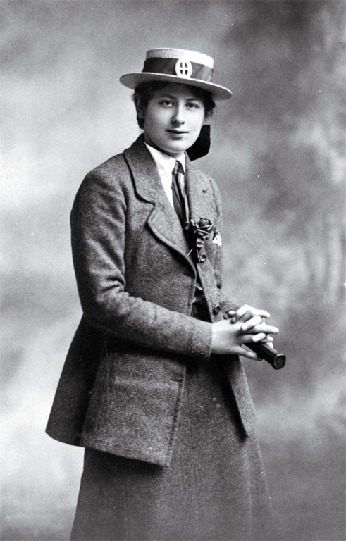 Mounted photograph by Standish and Preece of Ngaio Marsh (school prefect) in her St. Margaret's College school uniform [between 1910 and 1914]